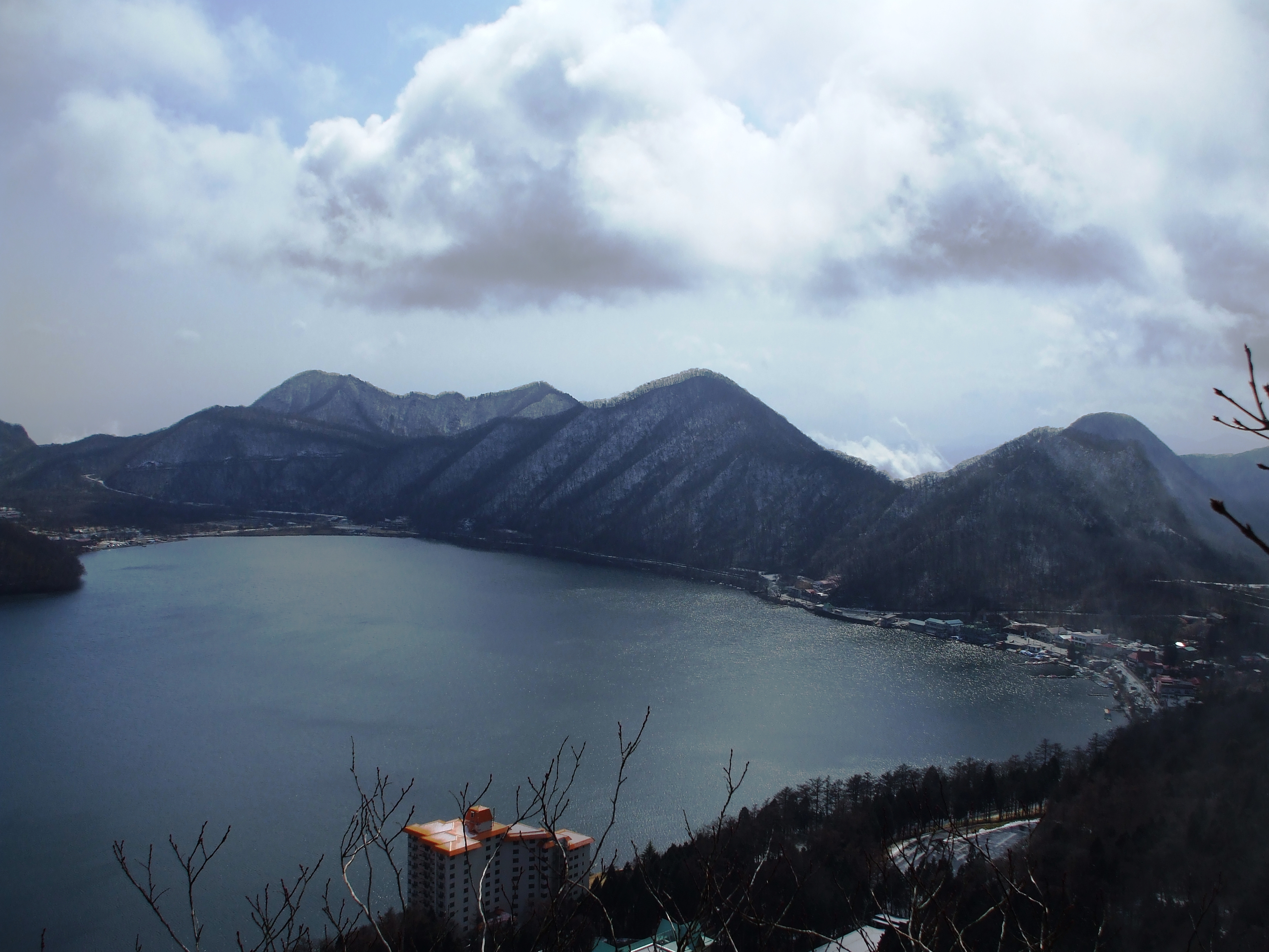 A view from Suzuriiwa Rock, Haruna Mountains, Gunma, Japan.